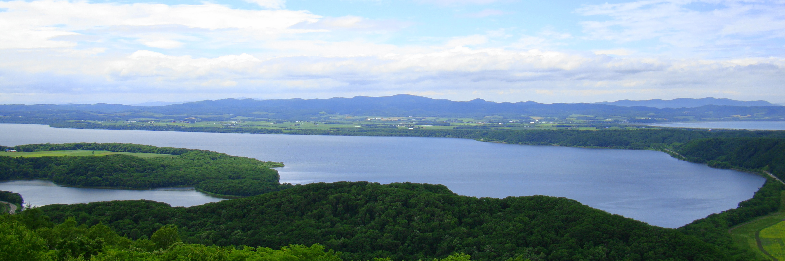 Lake Abashiri